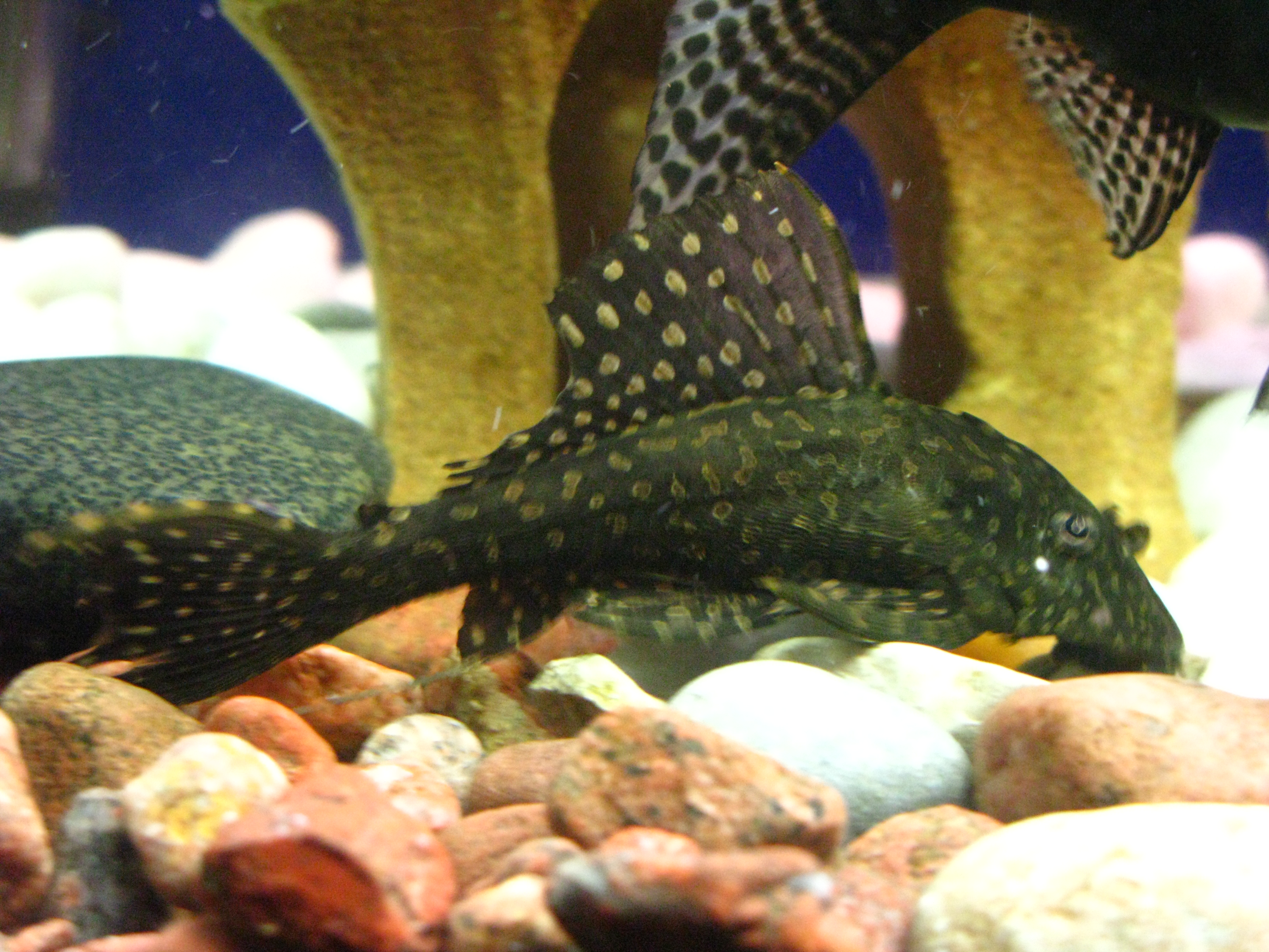 Ancistrus is a genus of freshwater fish in the family Loricariidae of order Siluriformes. Fishes of this genus are commonly known as the bushynose or bristlenose plecs.